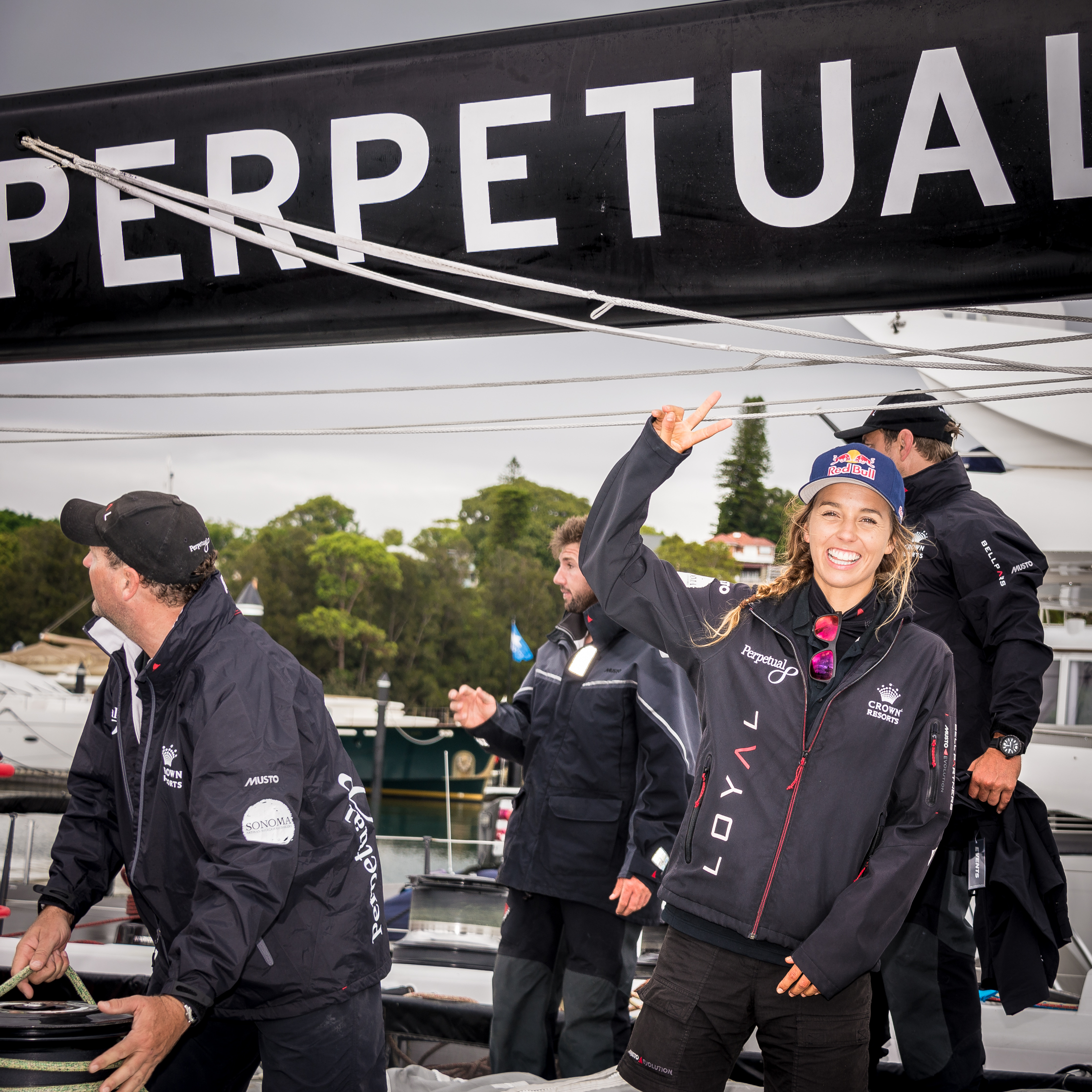 Sally Fitzgibbons aboard super-maxi yacht Perpetual Loyal upon her return to Sydney.